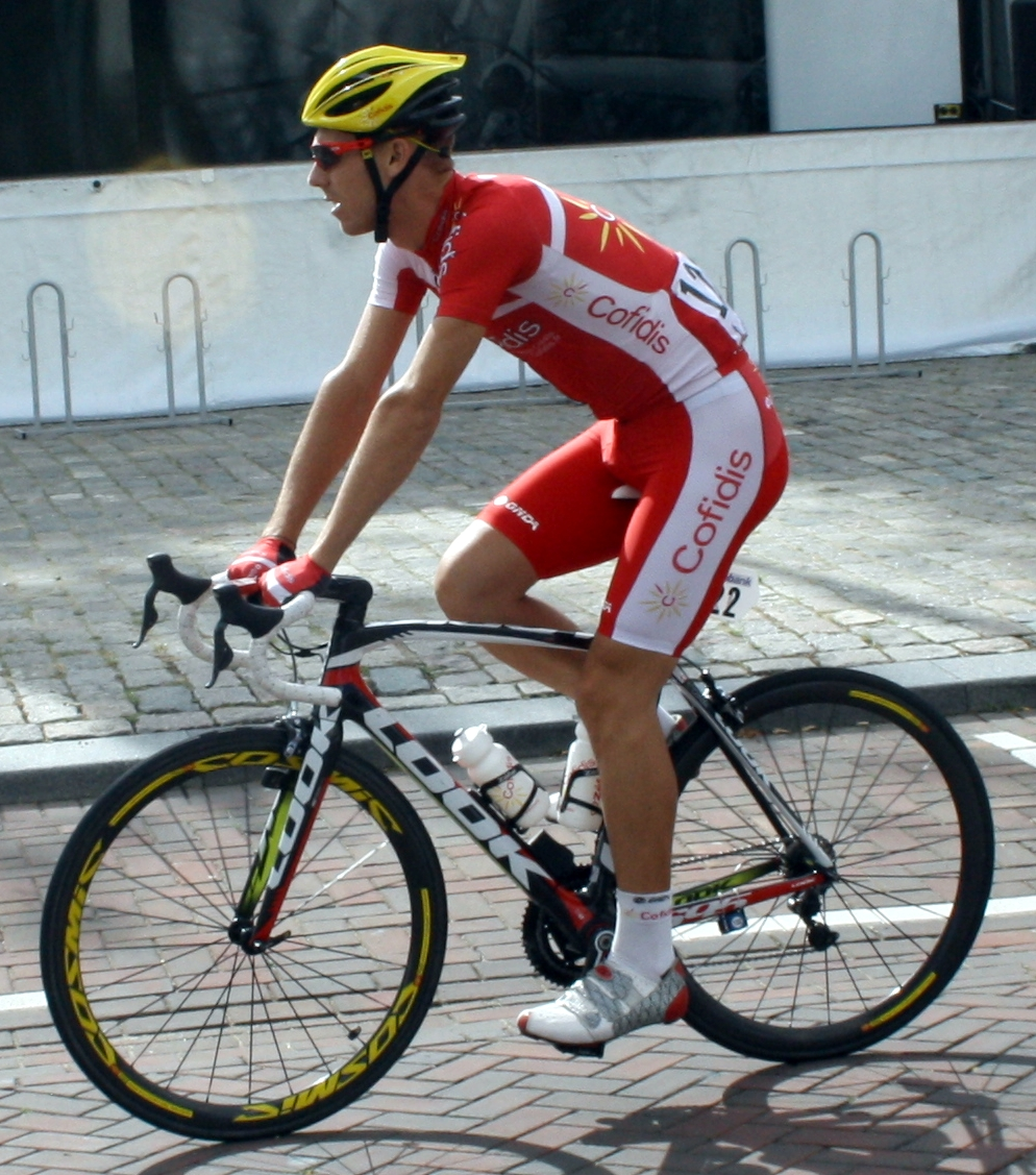 Florent Barle before the start of stage 2 of the World Ports Classic 2013